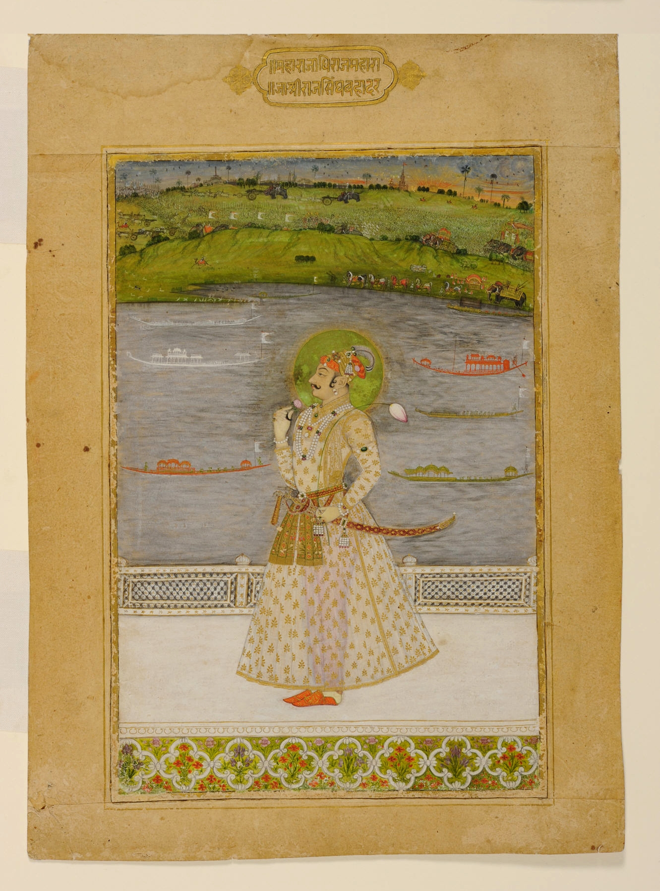 Bhavanidas, Raj Singh on a Terrace Enjoying a View of Royal Barges and Military Formations Beyond, 1728,Gursharan S. and Elvira Sidh Collection